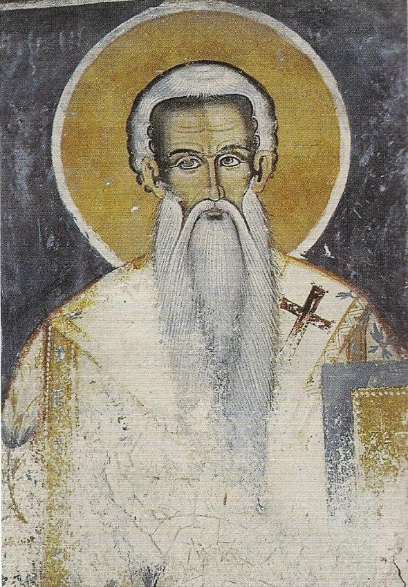 Theodosius of Trebizond 1765 Fresco from the exonarthex of Philotheou monastery